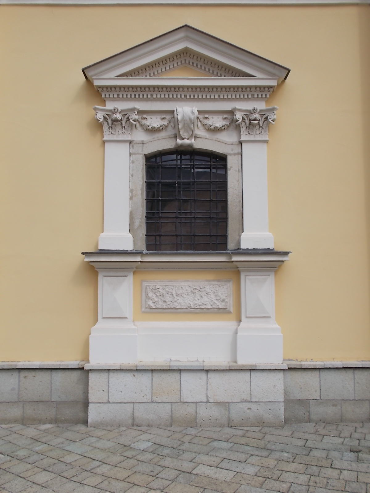 Lutheran Great Church, Baroque origin, 1784-1786. Reconstructed in eclectic neo-baroque style between 1850-1860, 1885-1886 and 1936. - Luther Square, Nyíregyháza, Szabolcs-Szatmár-Bereg County, Hungary.